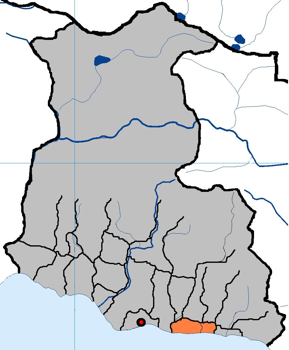 Tskuara - or Arsaul - a village in the district Gudauta of Abkhazia.